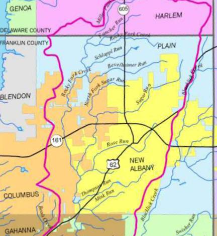 edited version of regional planning commission work financed through a grant from the U.S. Environmental Planning Agency. EPA work is available through FOIA, passed through to public domain.